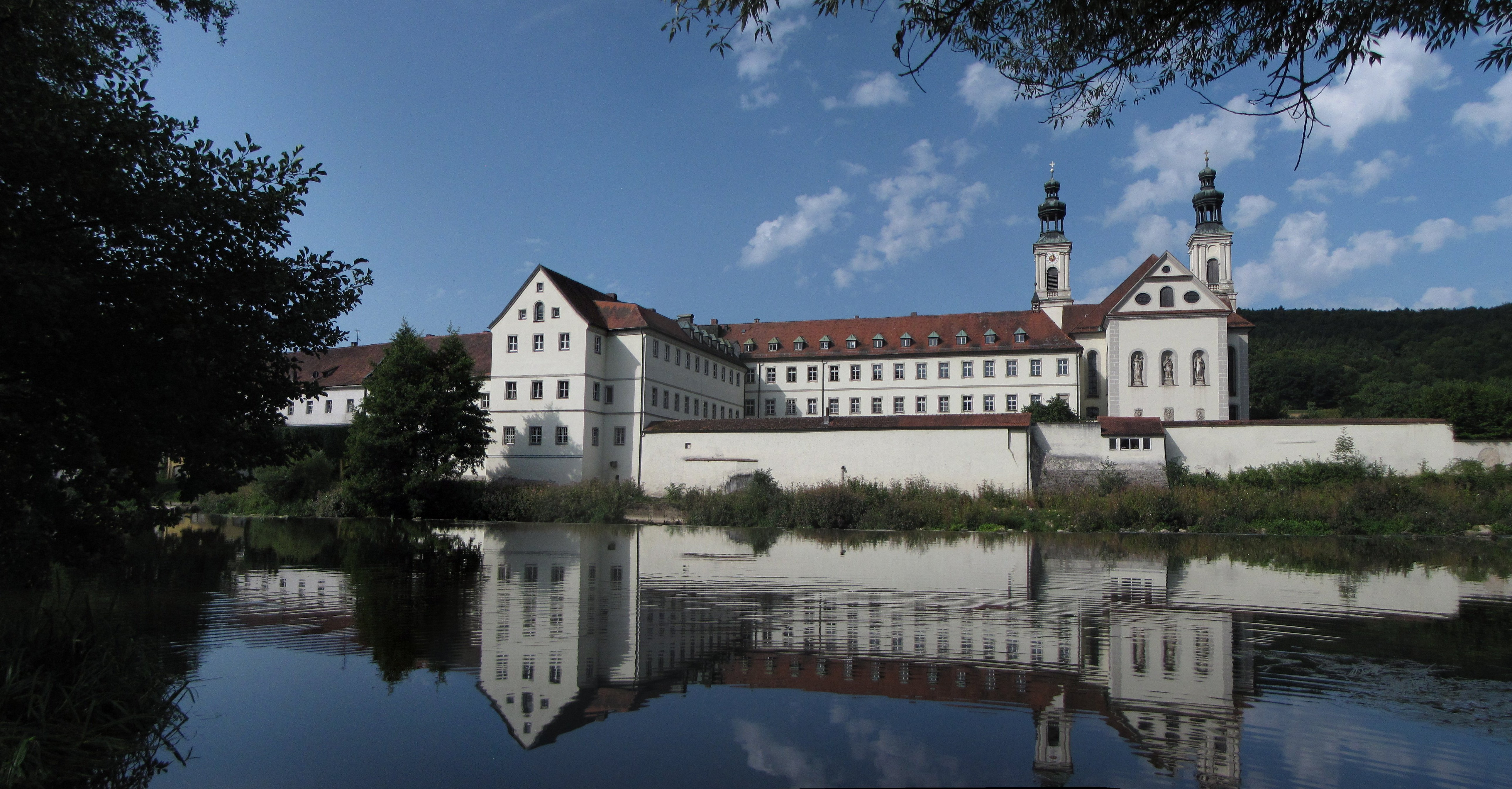 Pielenhofen monastery.